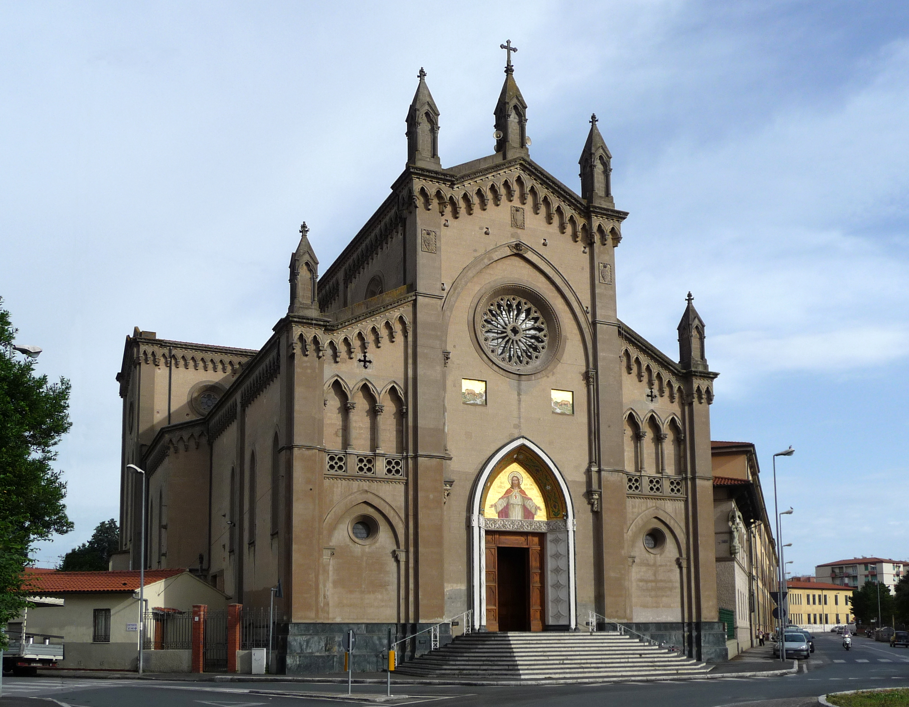 Church "Chiesa del Sacro Cuore" (Salesiani), Livorno, Italy